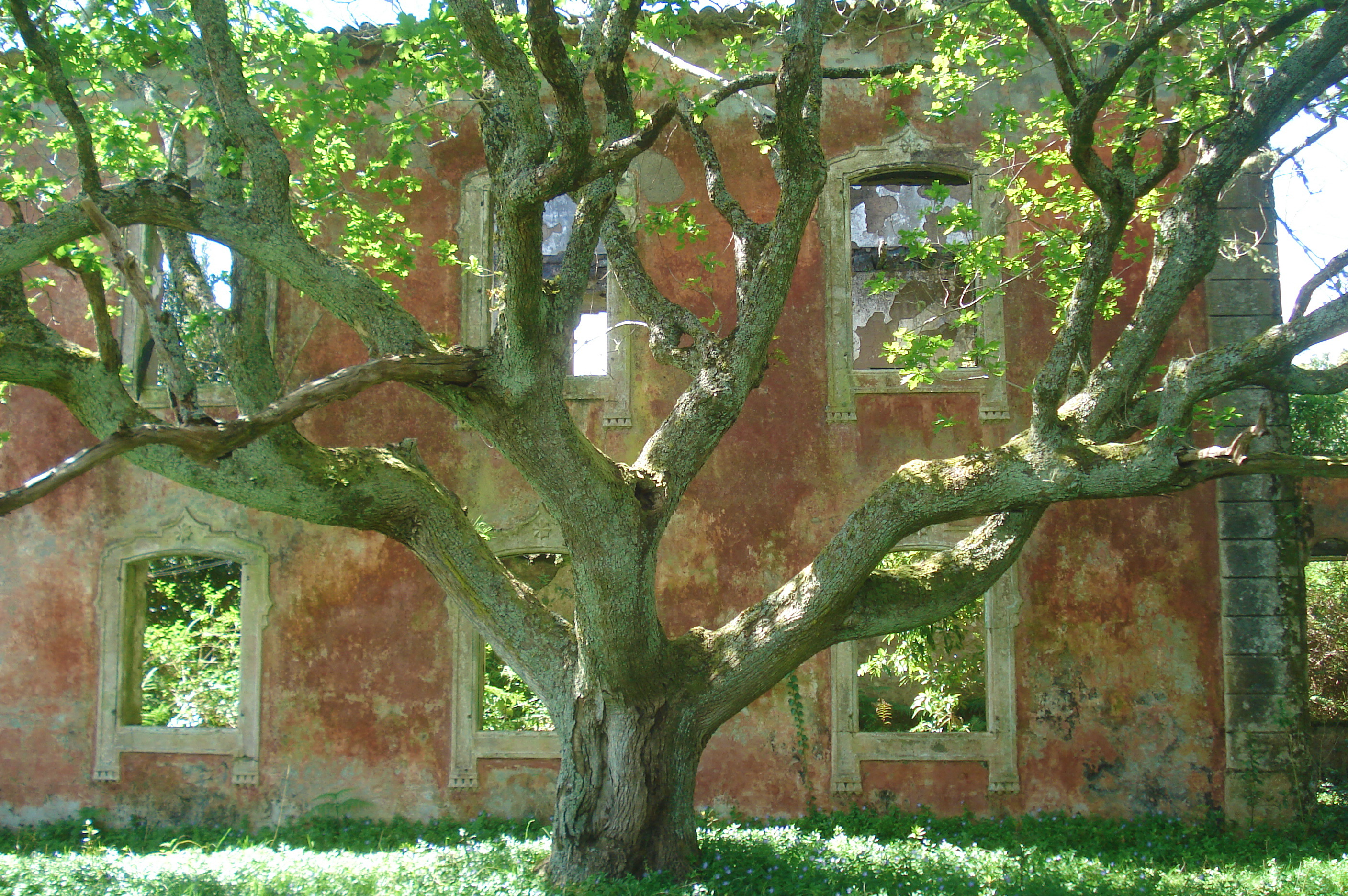 The eastern courtyard with the lateral facade and maple tree, in the Palacete of Pilar in the civil parish of Conceição, municipality of Horta (Azores), Portugal